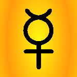 Astrological symbol of mercury. Own work.